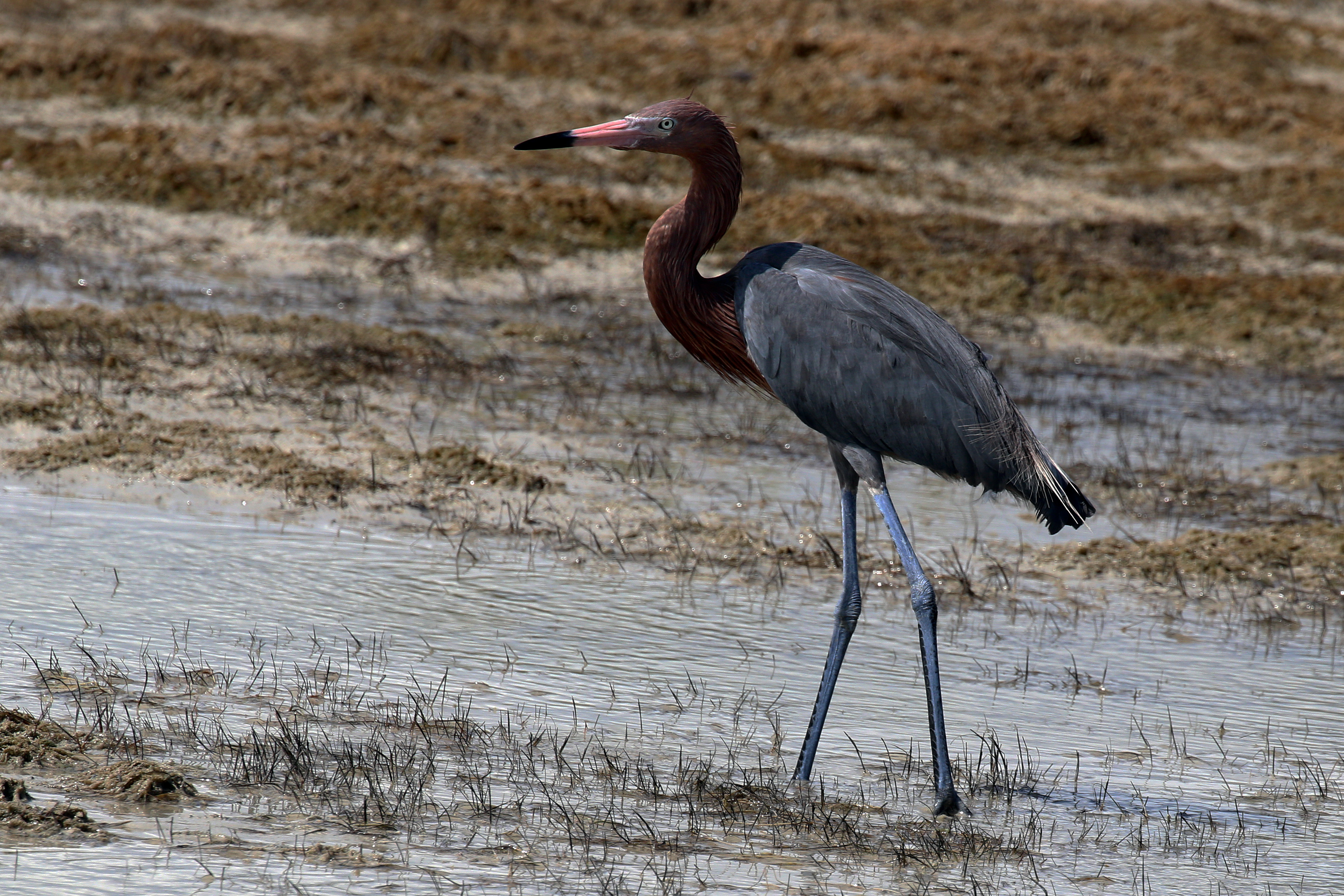 Reddish egret (Egretta rufescens) dark morph, Cuba